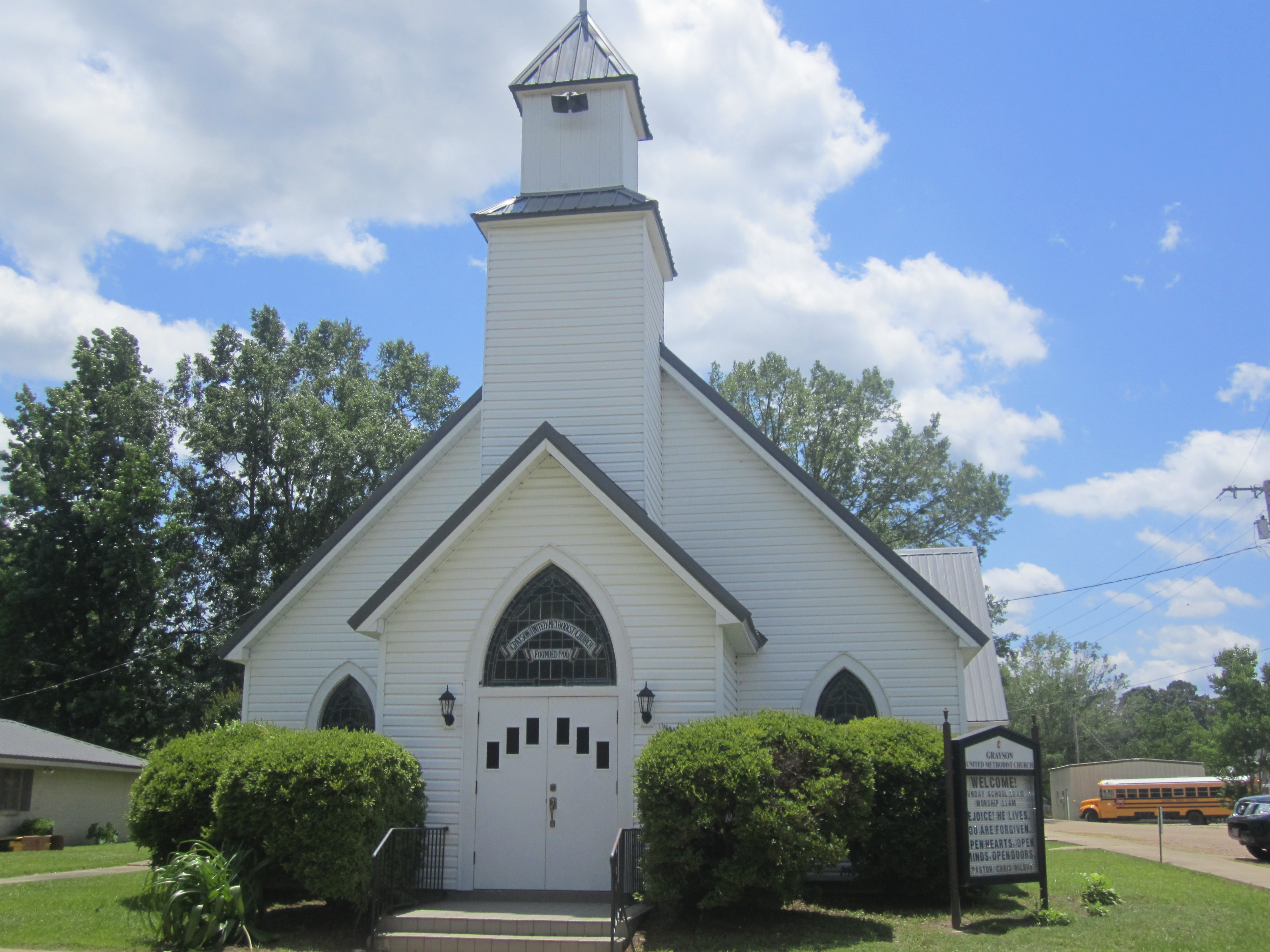 I took photo with Canon camera in Grayson, LA. It is the Methodist Church there.